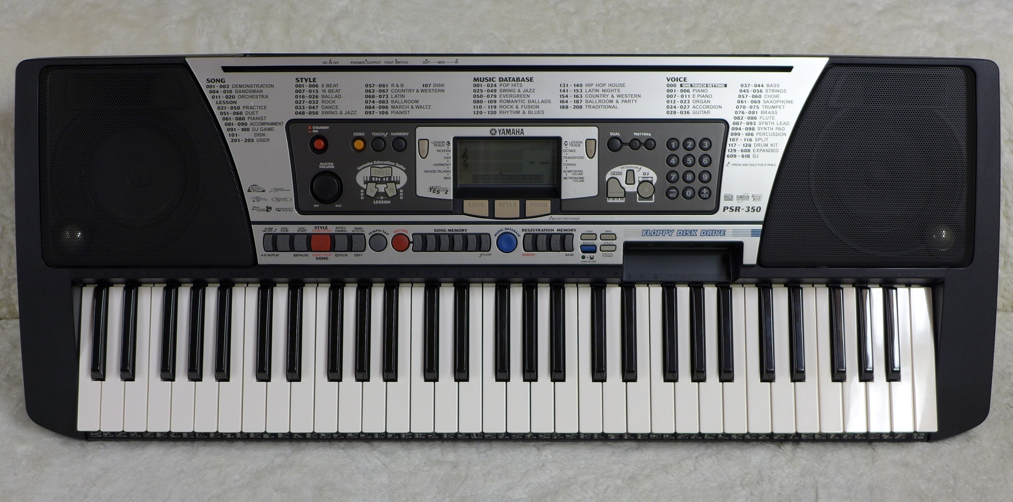 Brochure view